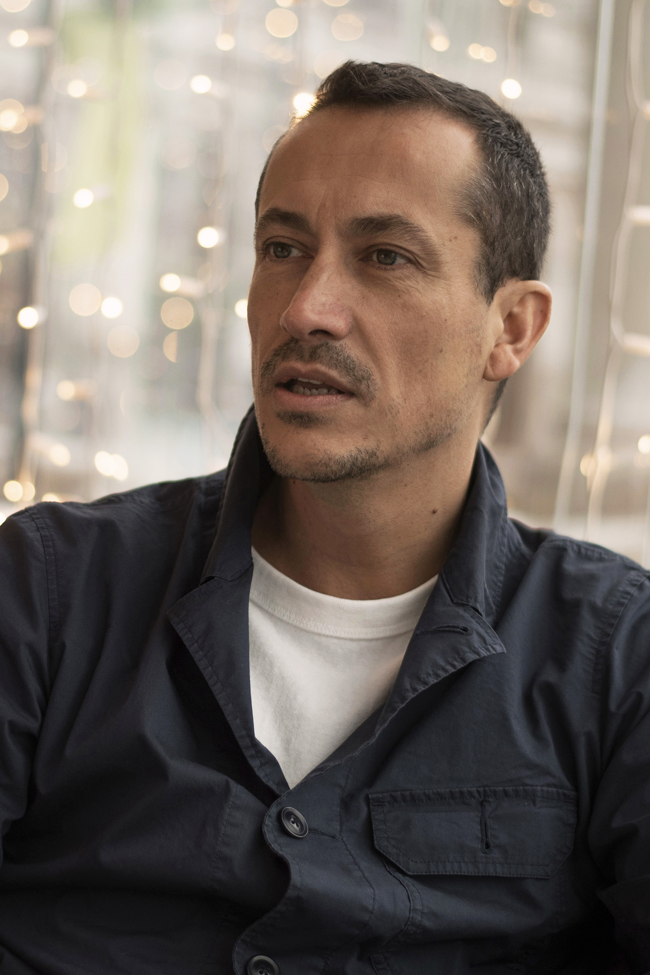 Portré